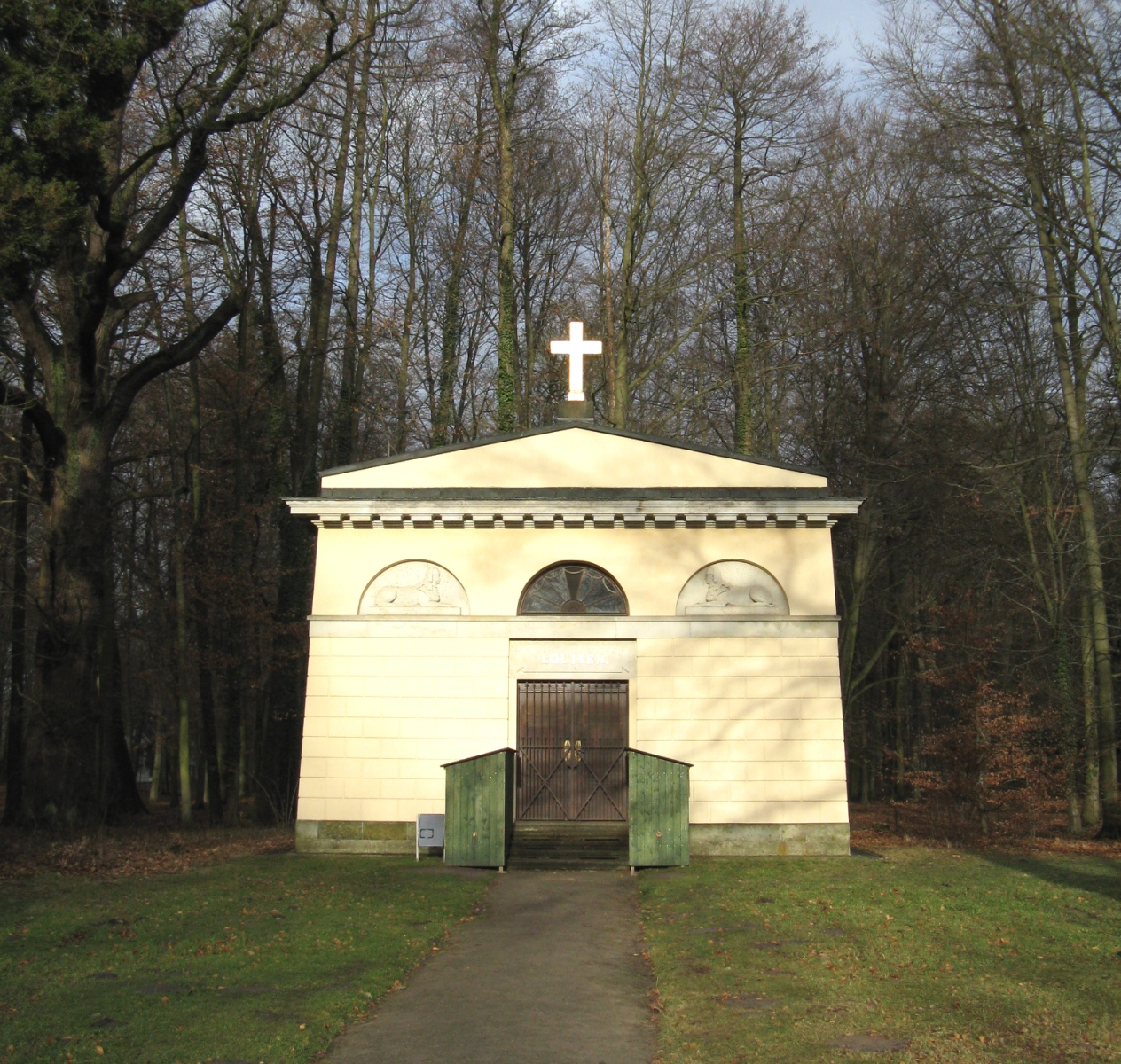 Mausoleum of Louise in the park of Ludwigslust castle, Germany